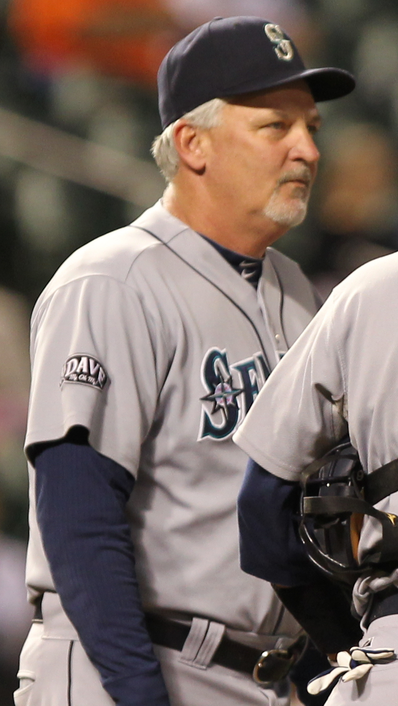 Seattle Mariners pitching coach Carl Willis during the Seattle Mariners at Baltimore Orioles game on May 11, 2011.